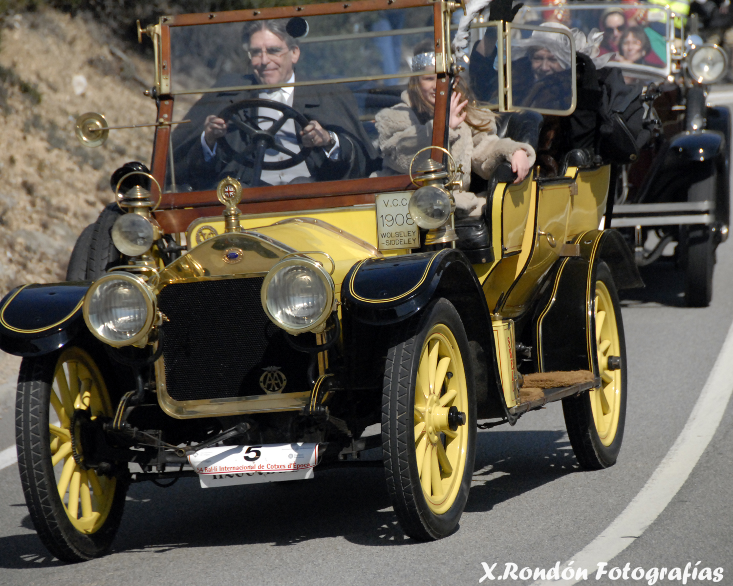 Wolseley-Siddeley 1908 14 hp tourer registration H-2007-BBB Tentative identification: Engine: 4-cylinder 14 hp 2613 cc Body: rotund phaeton (tourer)